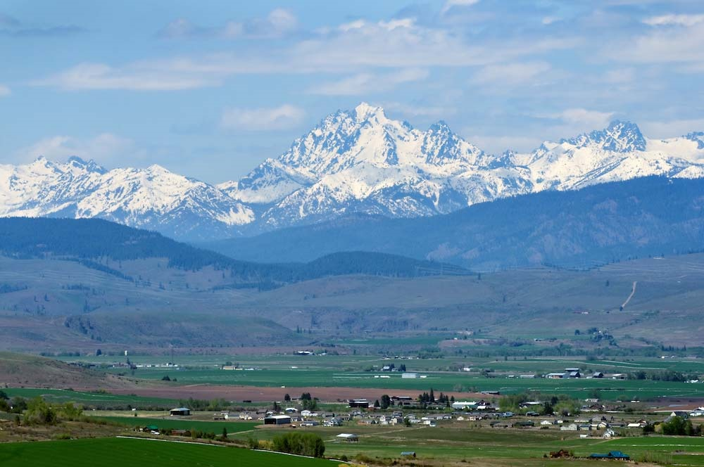 View of Thorp, Washington from Upper Kittitas Valley.